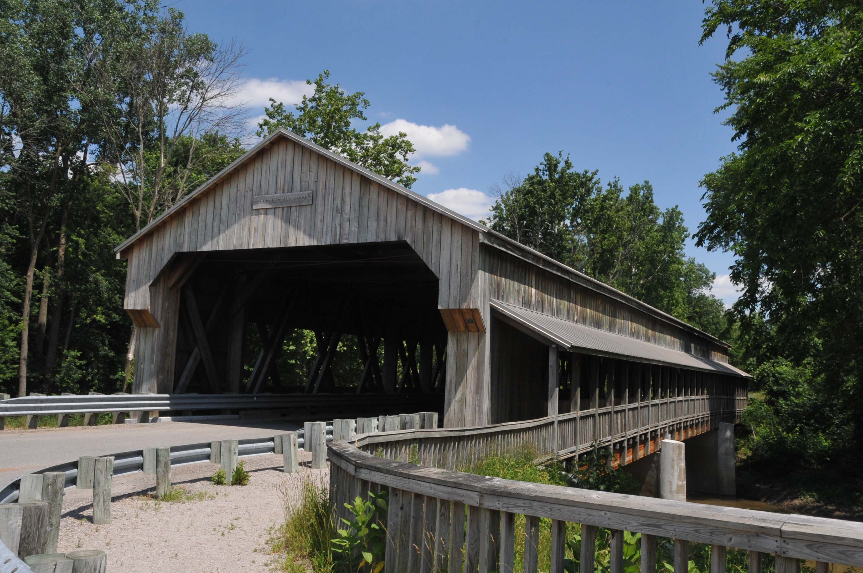 1999 HOWE truss covered bridge, 176 FEET OVER THE TIFFIN RIVER; 3 SPANS